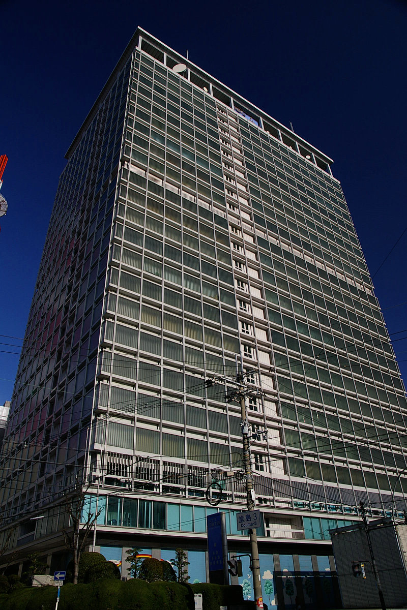 NTT Telepark Dojima, NTT Data Bldg, Osaka city, Japan